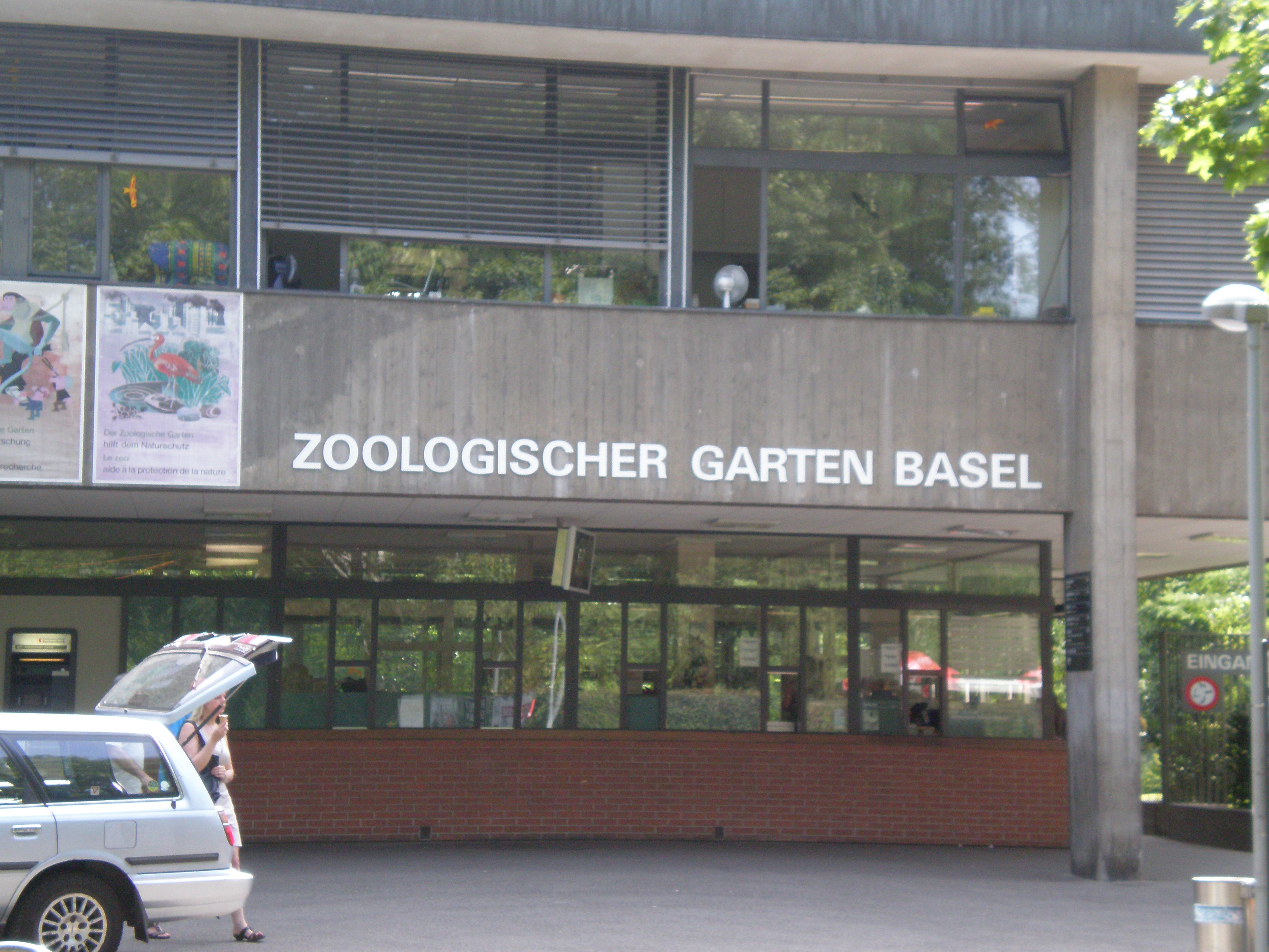 Basel Zoo